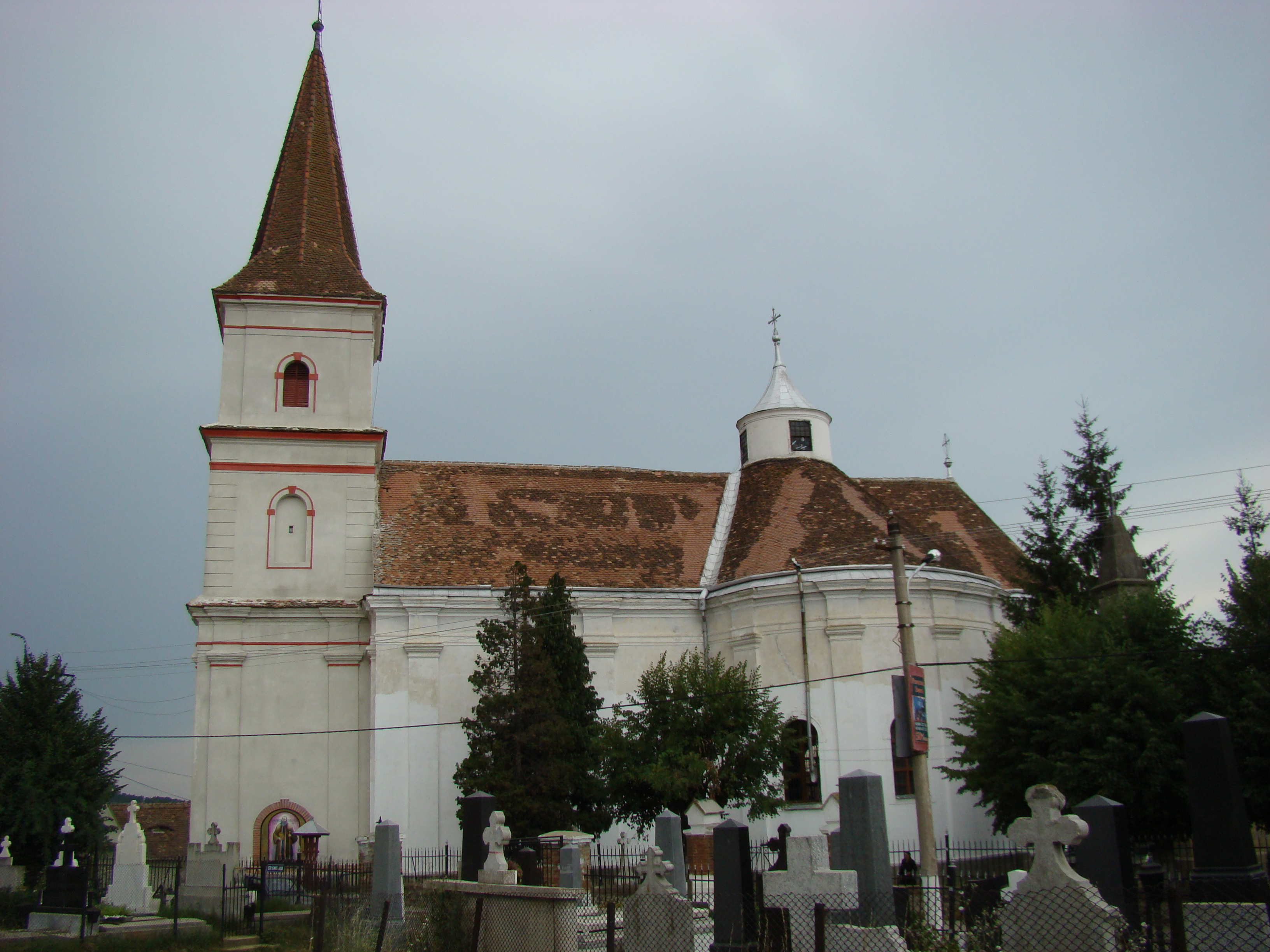 the Holy Trinity ("Din Deal") Orthodox church in Răşinari, Sibiu County, Romania